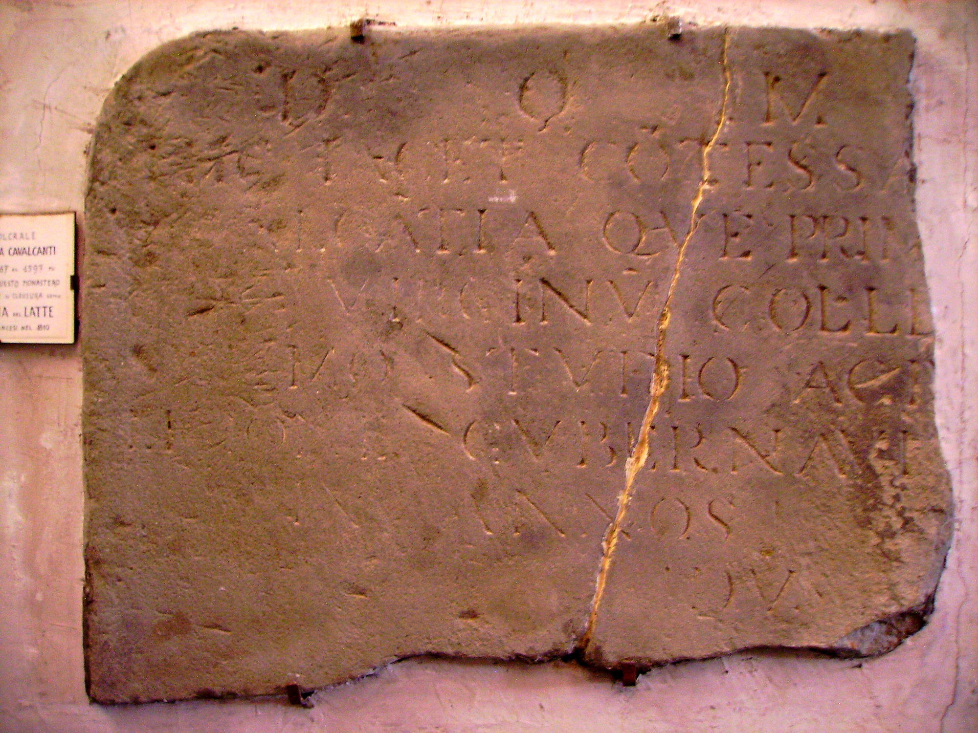 The gravestone of the countess Cavalcanti that from 1567 to 1597 was the first abbess of the agostinian monastery of Santa Maria del Latte (Saint Mary of Milk) in Montevarchi